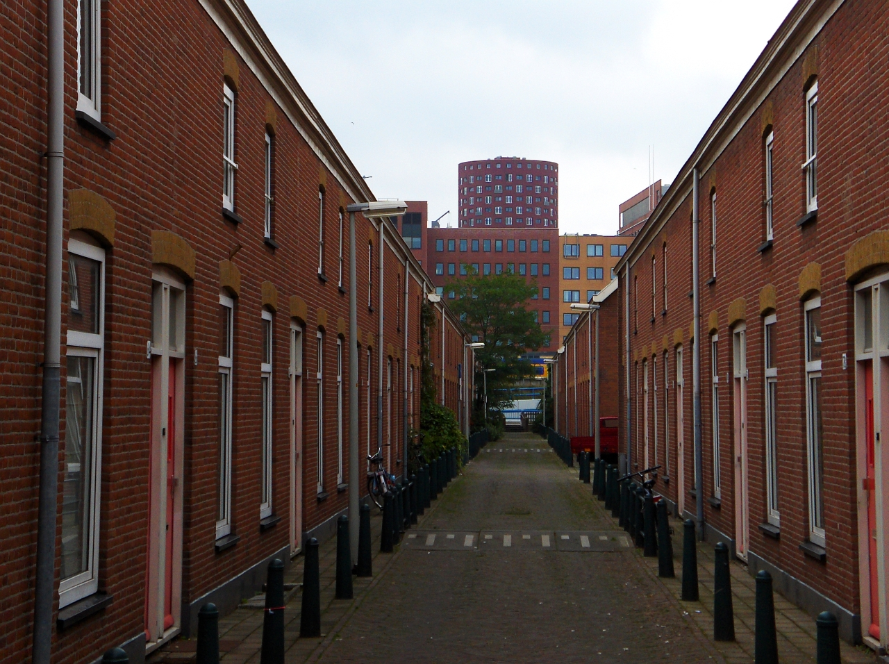 Hoefkade, Rode Dorp, The Hague, Netherlands